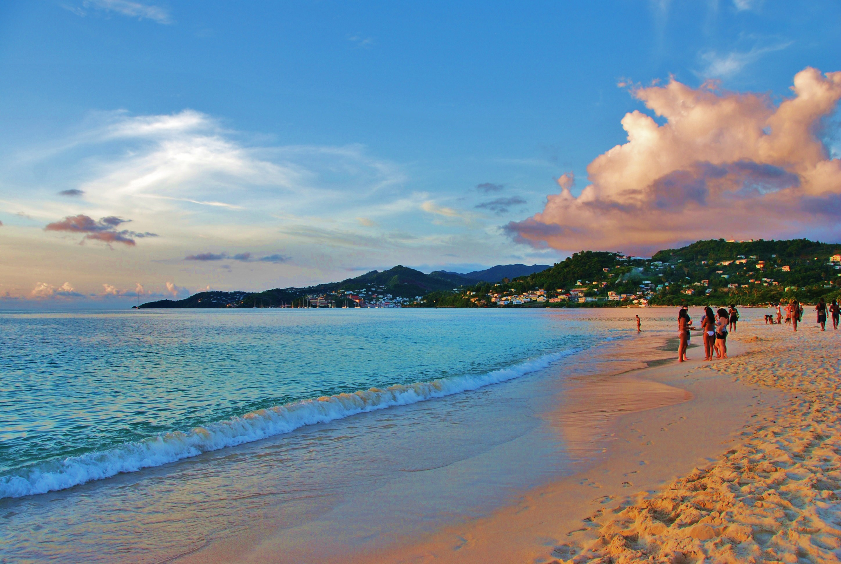 Grand Anse Beach, St. George's, Grenada, West Indies (Caribbean)